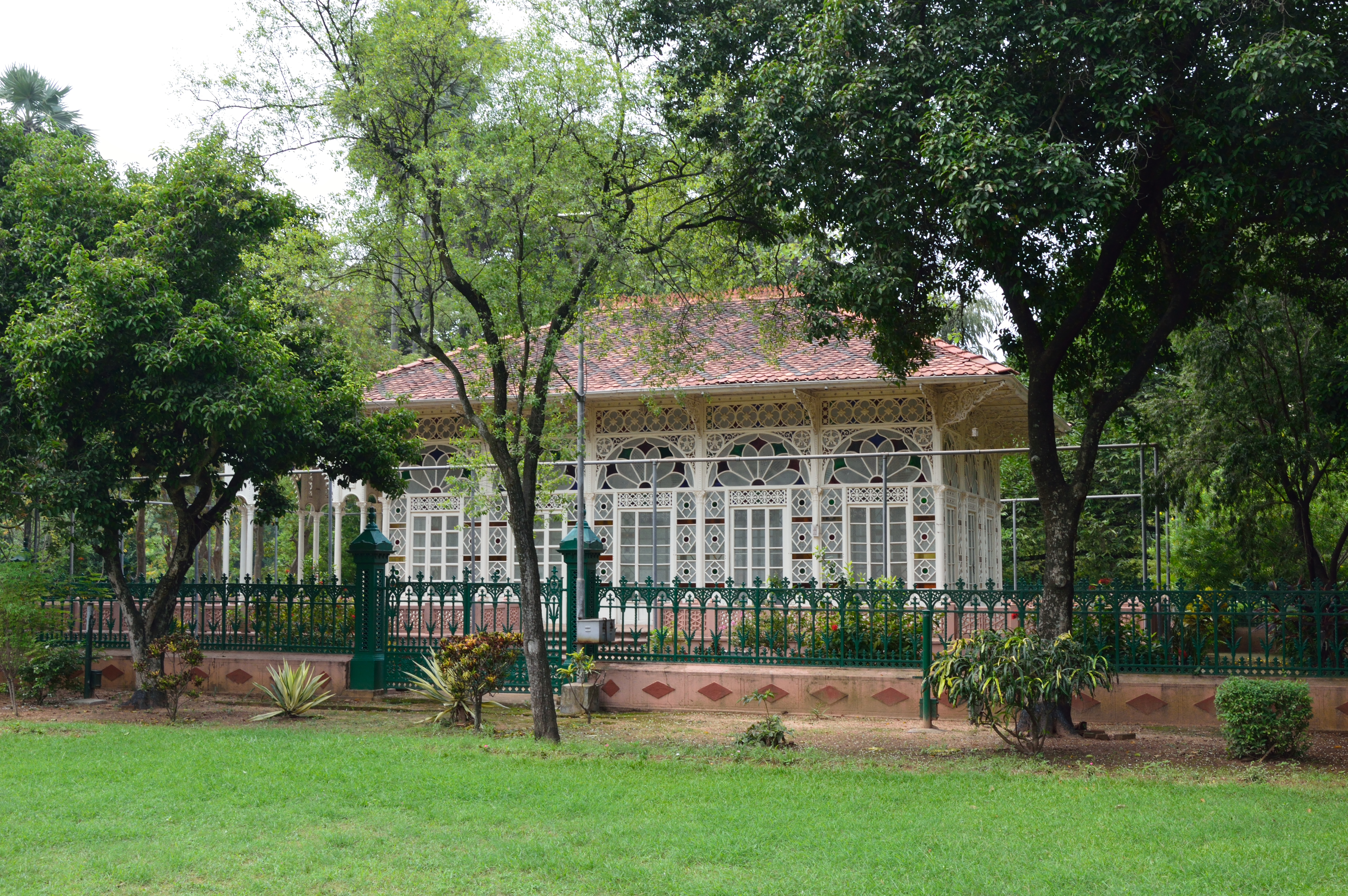 The Upasana Griha or Mandir (Prayer hall) . Photographed at the Visva-Bharati, Santiniketan. NOTE: This image is a panorama consisting of multiple frames that were merged or stitched in software. As a result, this image necessarily underwent some form of digital manipulation. These manipulations may include blending, blurring, cloning, and color and perspective adjustments. As a result of these adjustments, the image content may be slightly different than reality at the points where multiple images were combined. This manipulation is often required due to lens, perspective, and parallax distortions.